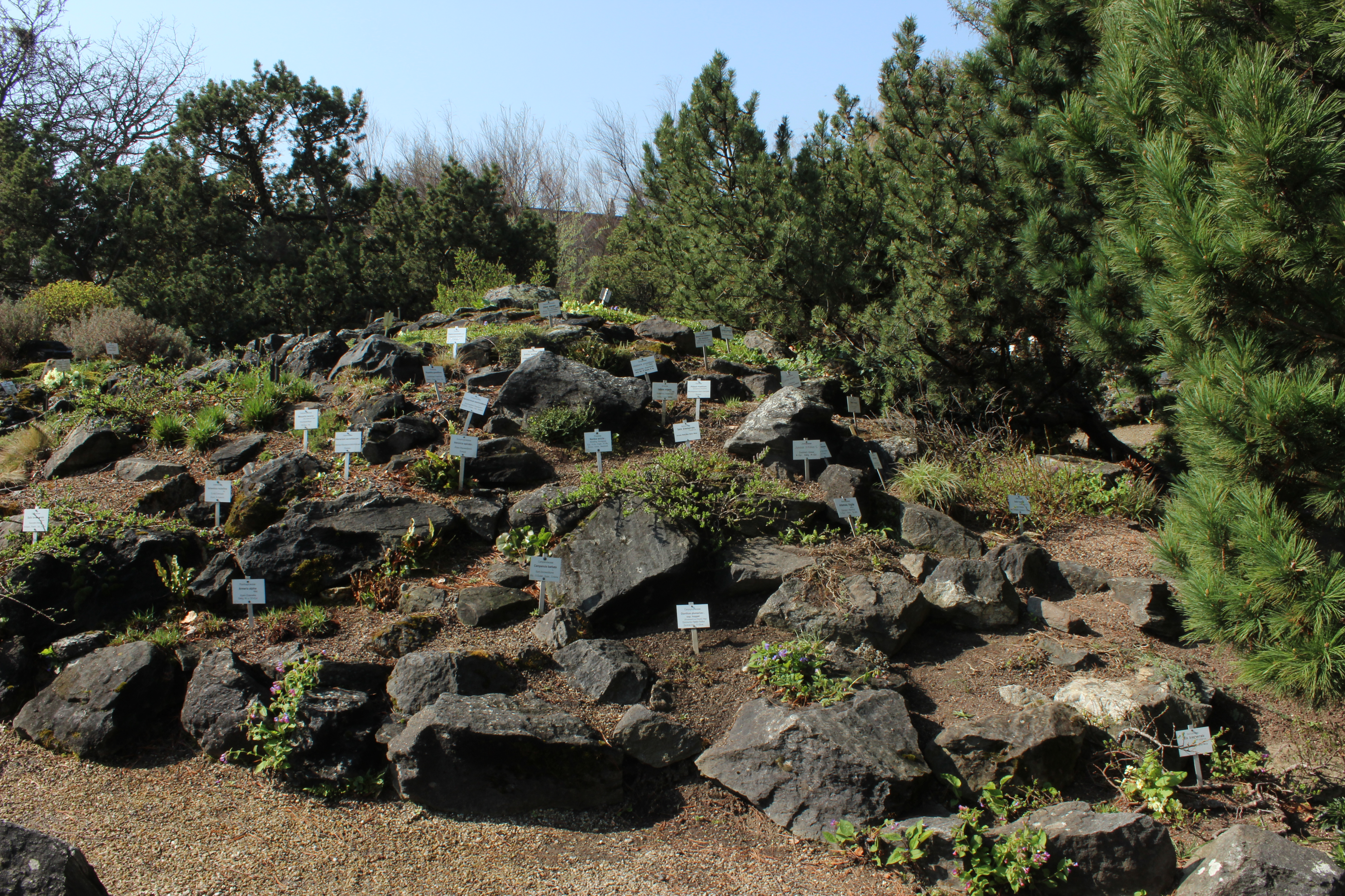 The Alpinum in the Botanical Garden of the University of Vienna.